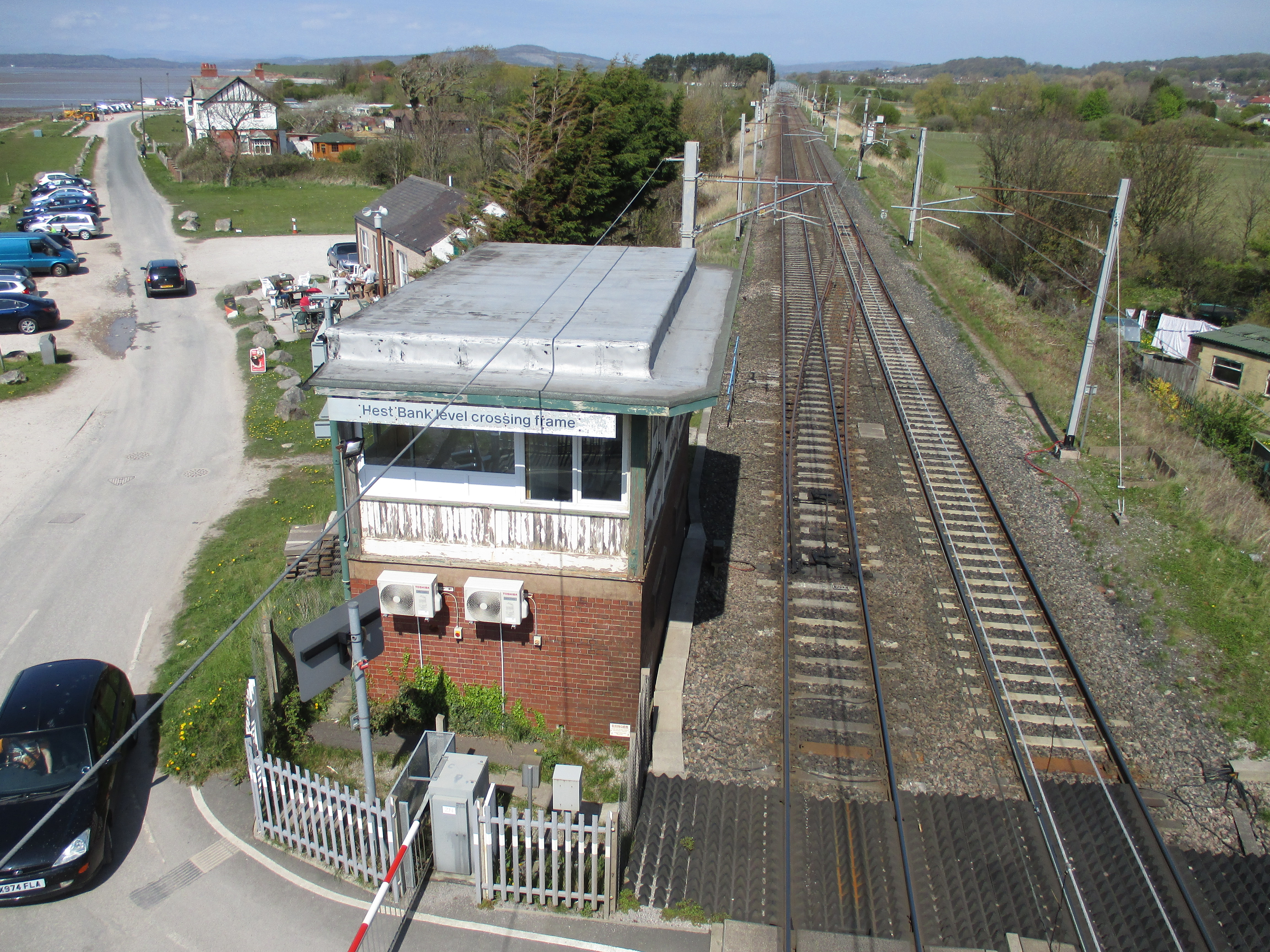 Signal box at the former Hest Bank railway station, seen from the footbridge.